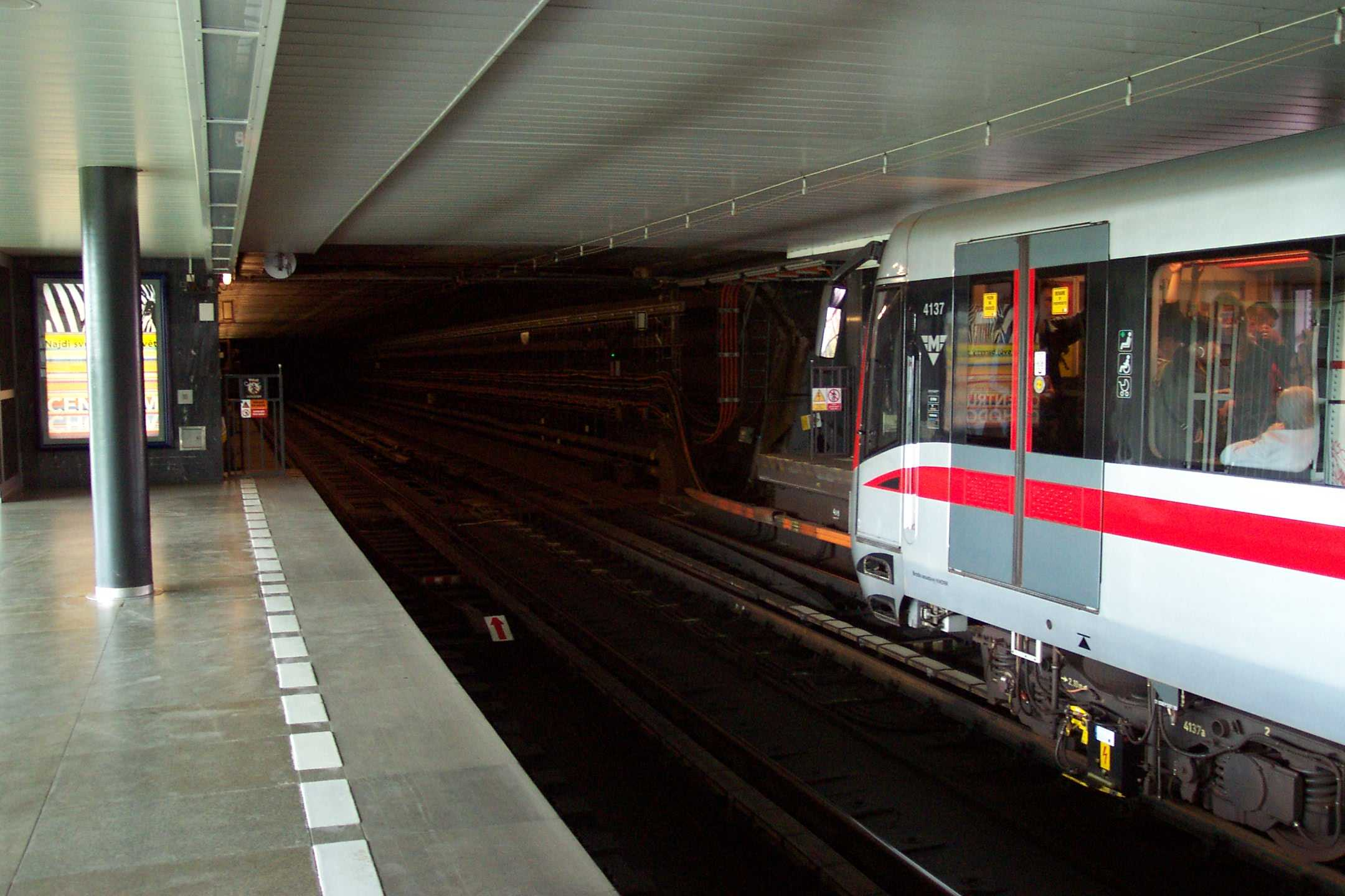 Metro station Vyšehrad in Prague - Stanice metra Vyšehrad